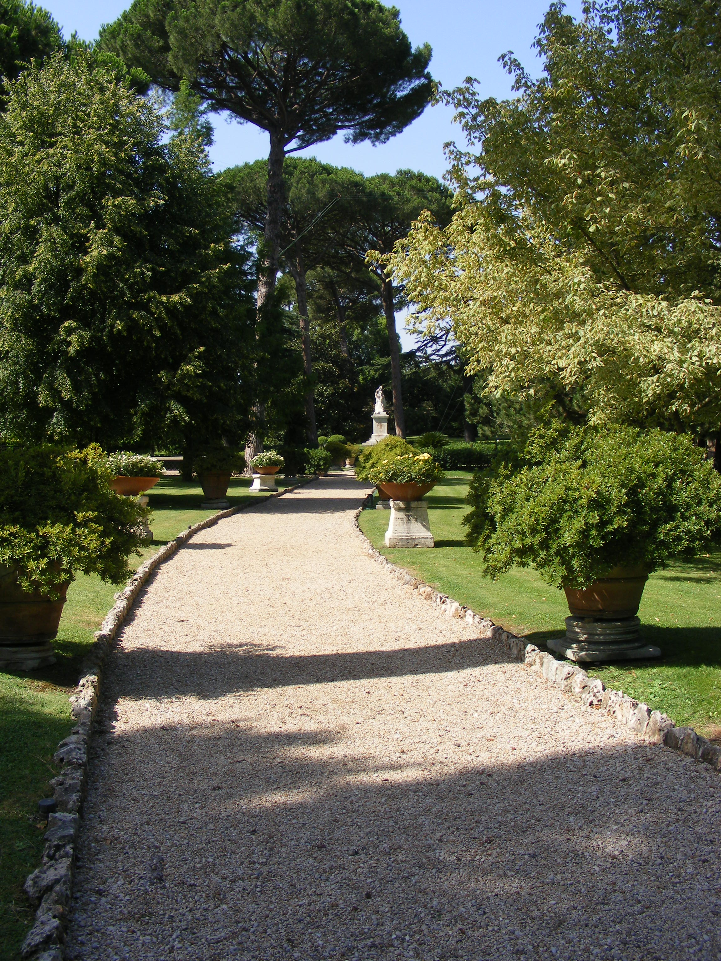 A path through the Giardino americano (American Garden) in the Vatican (part of the Giardini Vaticani).